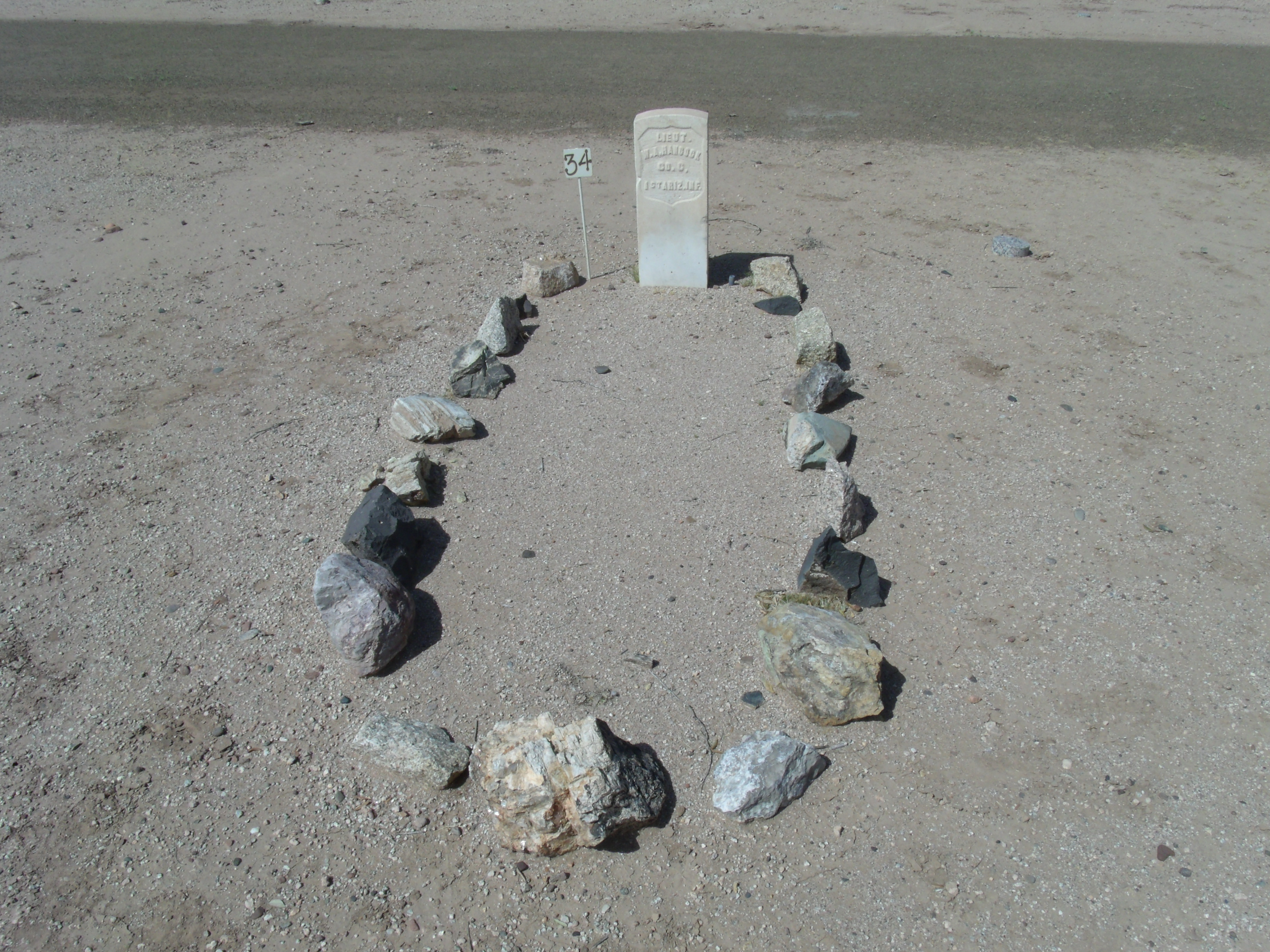 William Augustus Hancock laid out the first town site of Phoenix in 1870. Known as the "Father of Phoenix", he was appointed District Attorney in 1871, probate judge in 1875 and was the first sheriff in Maricopa County. Hancock died on March 24, 1902. The grave is located at 1317 W. Jefferson Street in the "Knights of Pythias Cemetery" section of Phoenix's historic Pioneer & Military Memorial Park. The Pioneer & Military Memorial Park is listed in the National Register of Historic Places, reference #06001317.